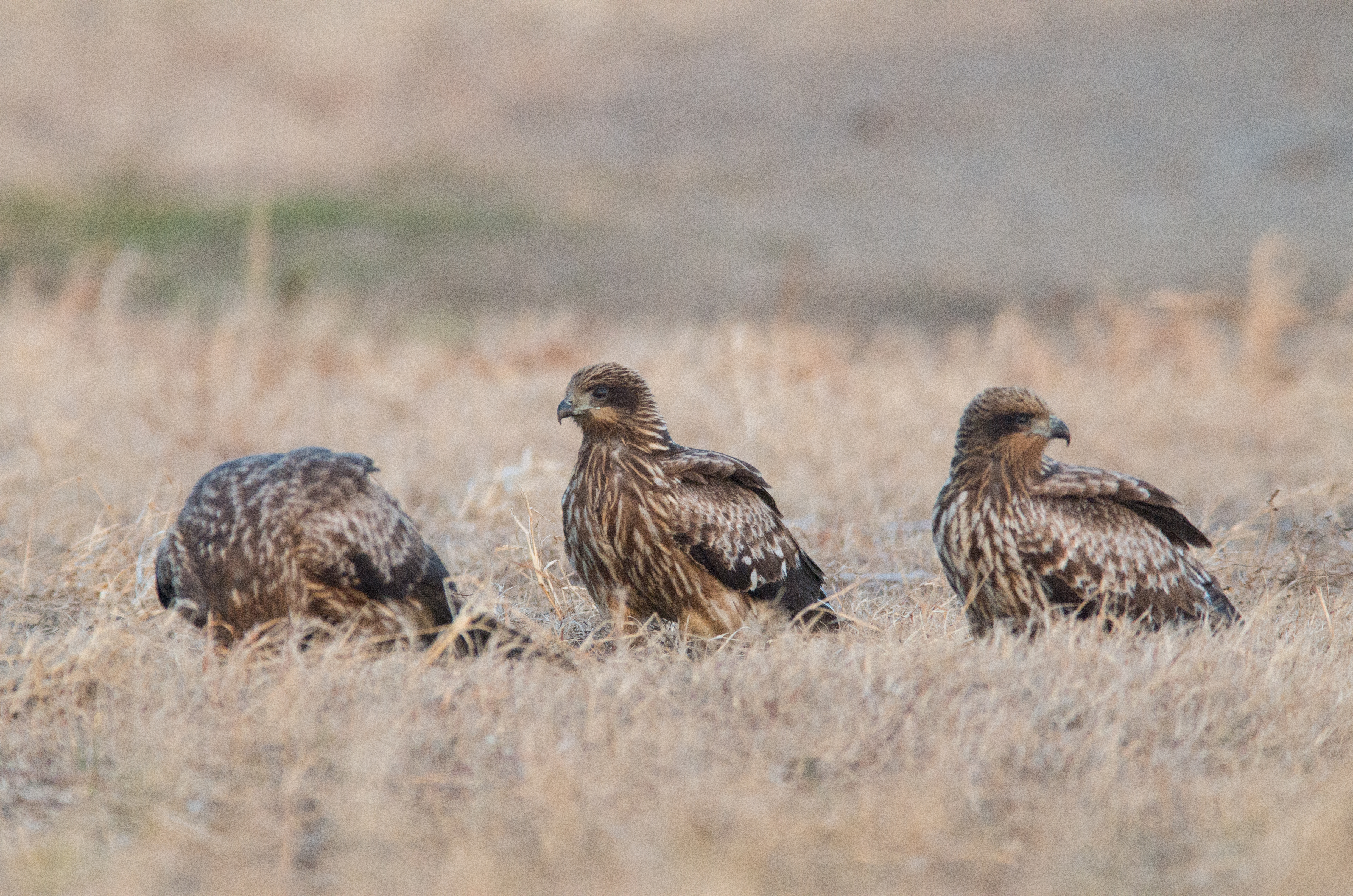 Three Black Kites (Milvus migrans) in Japan